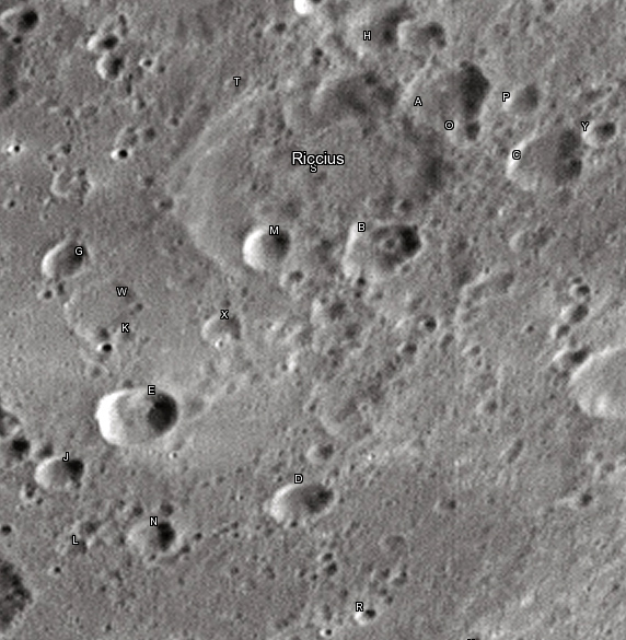 Riccius lunar crater as seen from Earth with satellite craters labeled